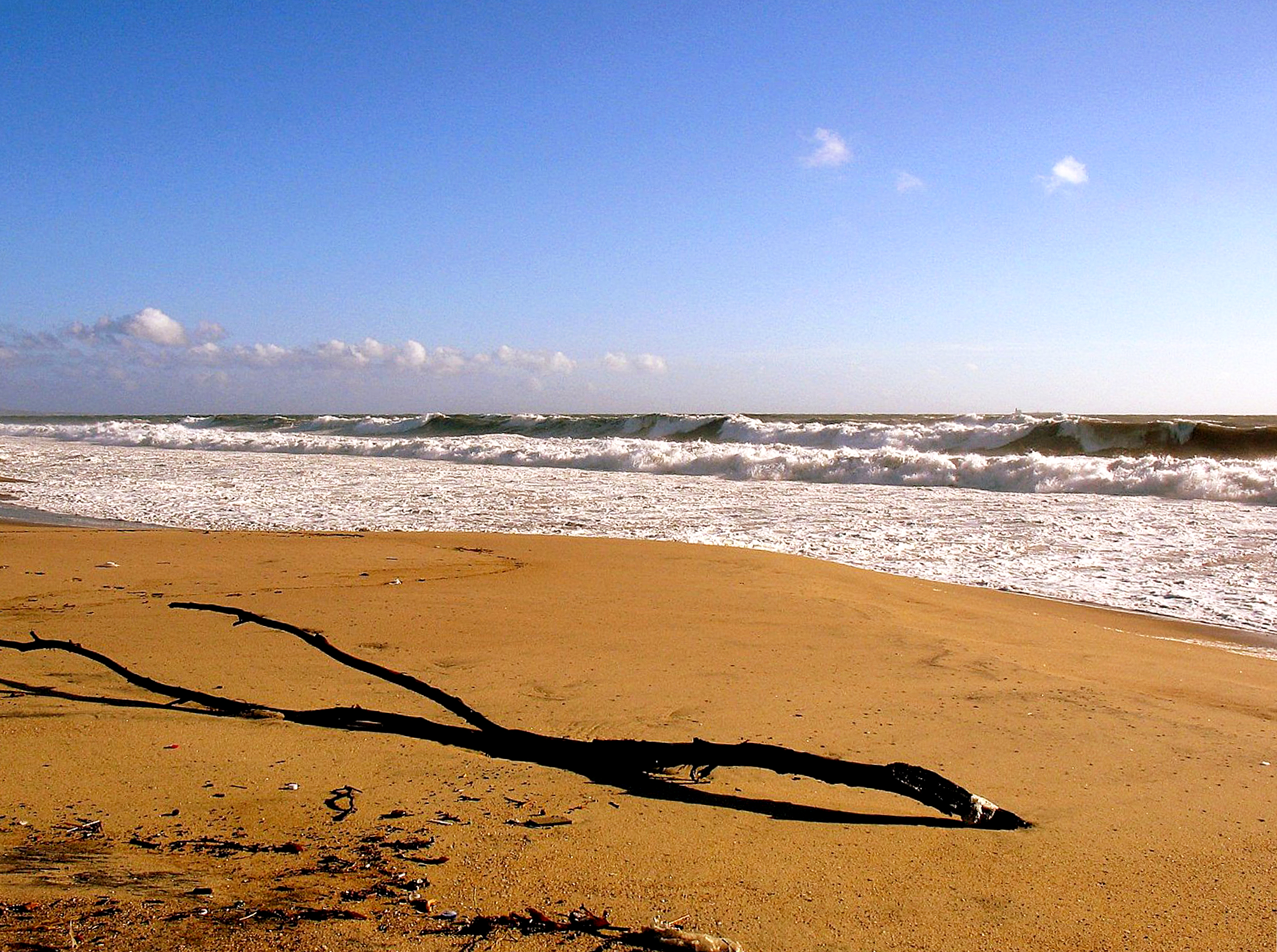 Breakers on The Shore at Playa del Rey. Toes Beach looking south.